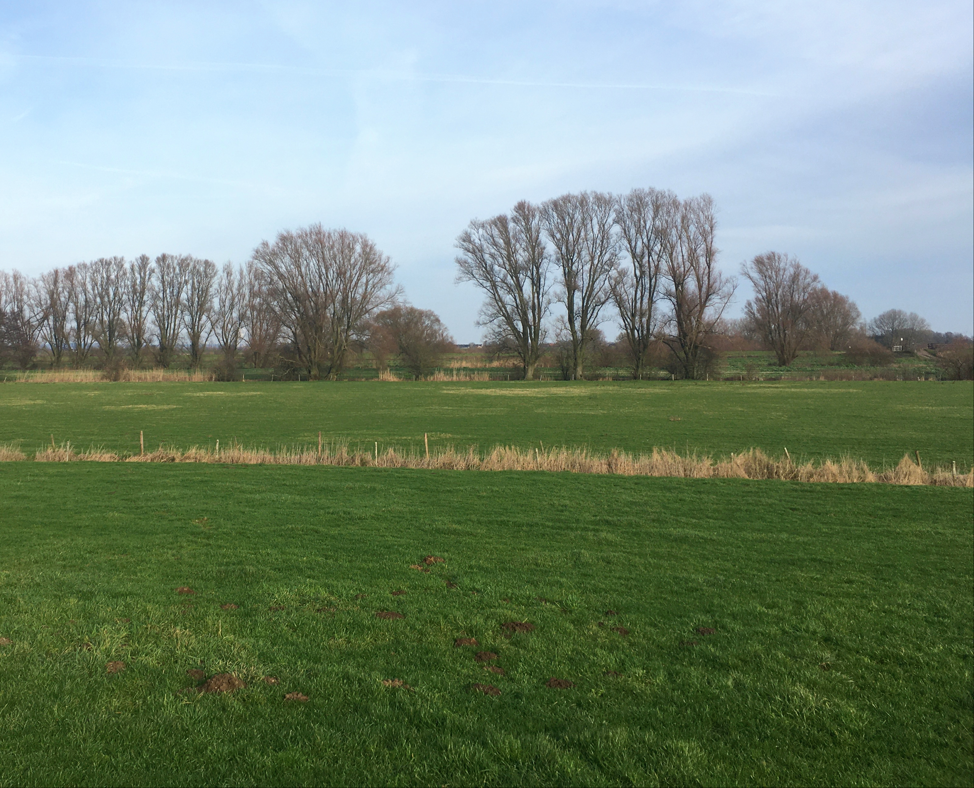 Riverscapes of Angeren, Lingewaard